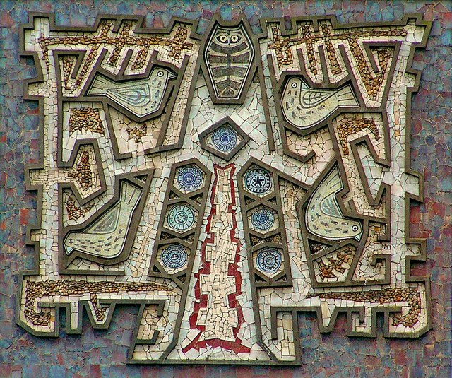 Salford's Tree Of Knowledge A Ceramic and Tiled Mural designed by Alan Boyson and adorned the gable end of Cromwell Secondary School. It has just be Grade II listed by English Heritage.